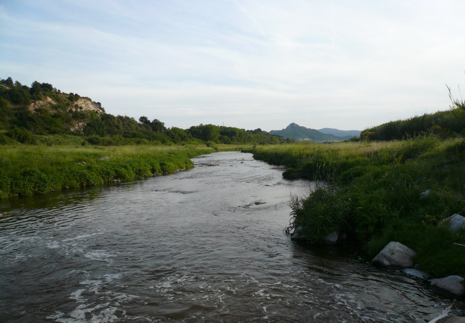 Besòs river in La Llagosta and Sant Fost de Campsentelles (Vallès Oriental, Catalonia).